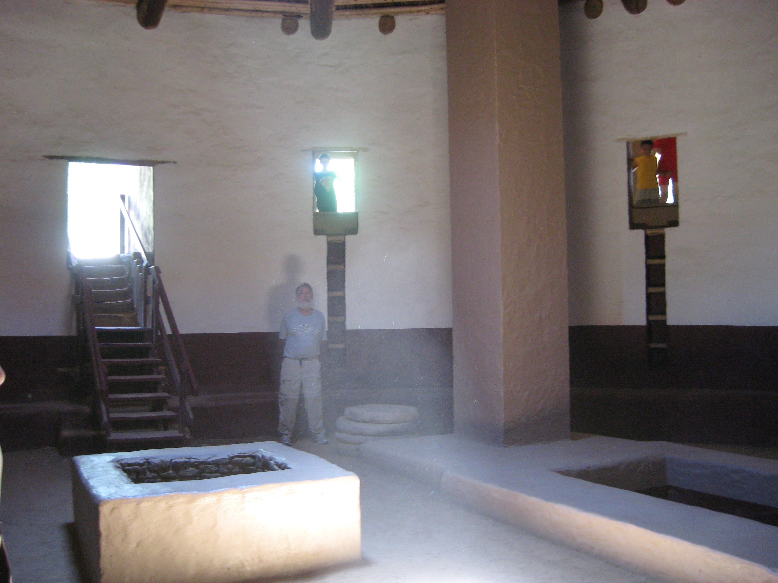 Interior of Great Kiva at the Aztec Ruins National Monument. Image taken by Ellen Bailey (cf Wvbailey) 03:47, 25 July 2007 (UTC)